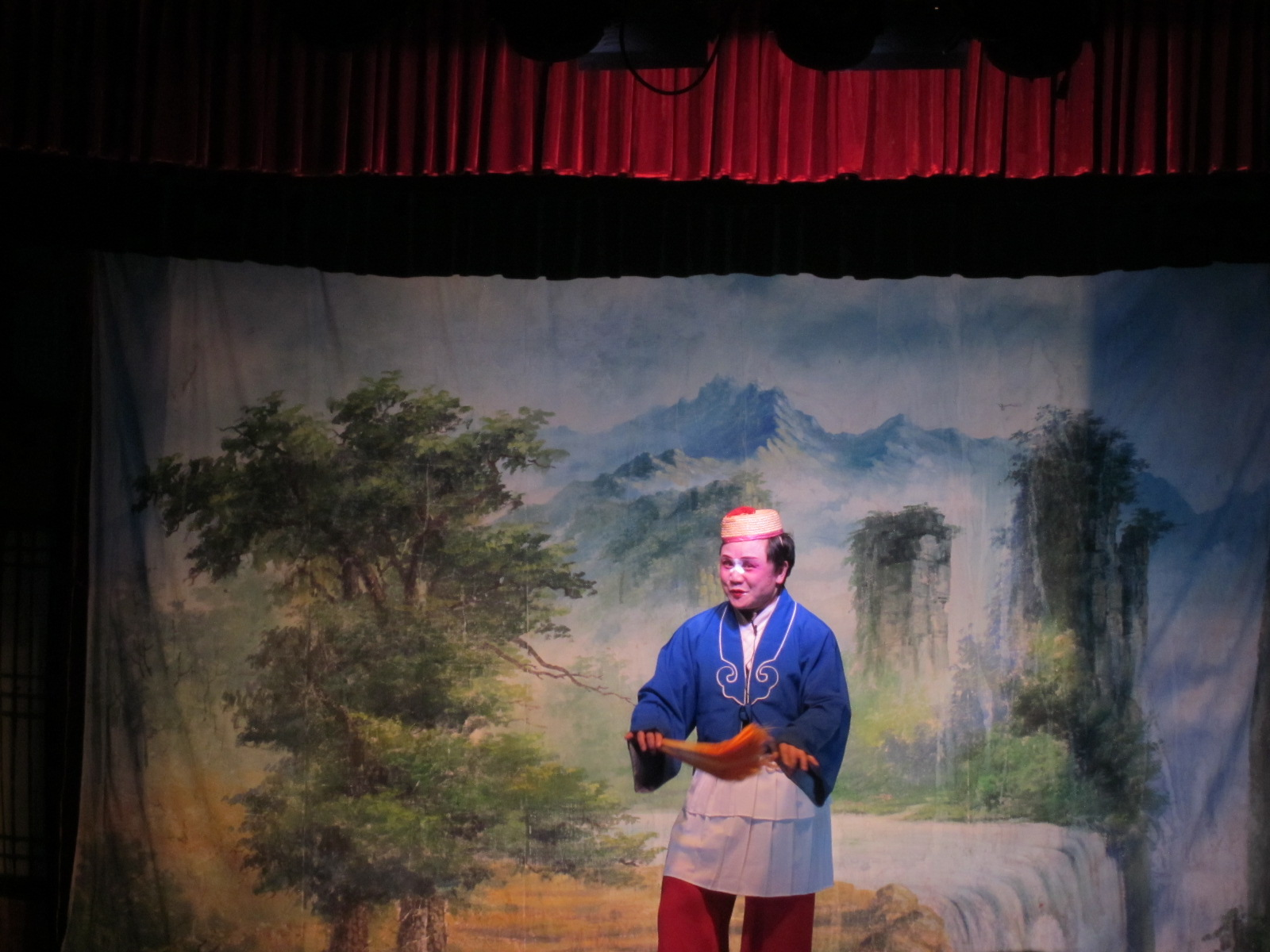 Changsha Flower Drum Opera, Changsha mandarin dialect is used on stage, giving a greater impact to Hunan style of Flower Drum play. This special clown character on this picture is called chǒujué (丑角).